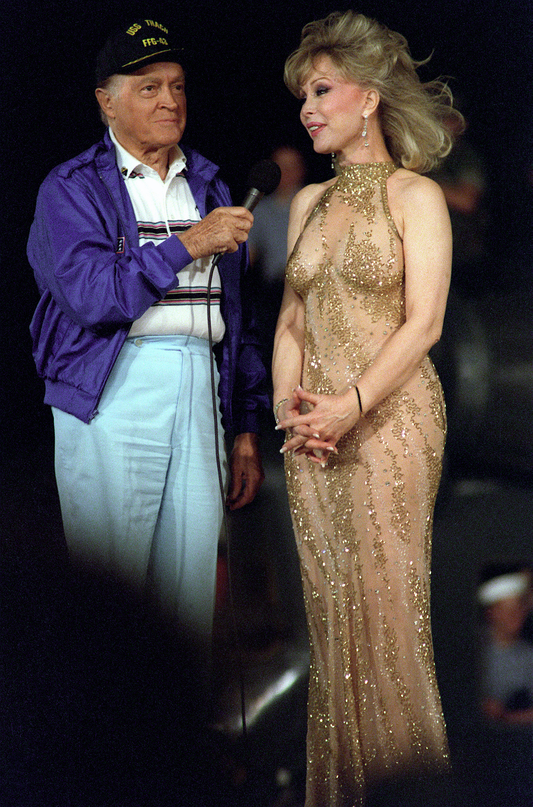 Entertainer Bob Hope talks with actress Barbara Eden during a United Services Organization (USO) show aboard the amphibious assault ship USS OKINAWA (LPH-3).